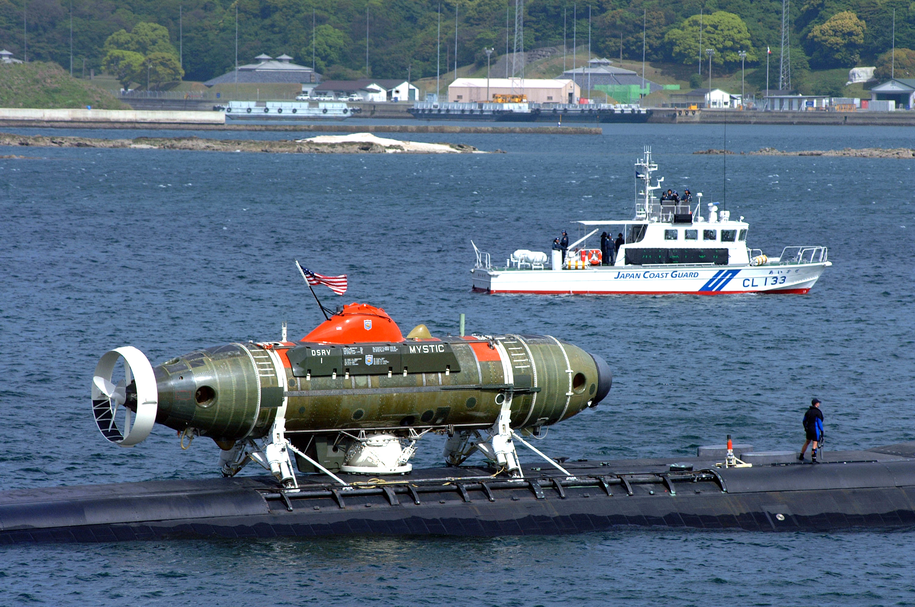 Sasebo, Japan (Apr. 25, 2002) — The U.S. Navy Los Angeles-attack submarine USS La Jolla (SSN-701) with the deep submergence rescue vehicle Mystic (DSRV-1) attached, is escorted by the Japanese Coast Guard as it pulls out of Sasebo harbor to participate in the submarine rescue Exercise Pacific Reach 2002. La Jolla and Mystic will operate with surface ships and submarines from the U.S., Japan, Australia, the Republic of Korea and the Republic of Singapore during Exercise Pacific Reach. Mystic was specifically designed to fill the need for an improved means of rescuing the crew of a submarine immobilized on the ocean floor. It can operate independently of surface conditions or under ice for rapid response to an accident anywhere in the world.